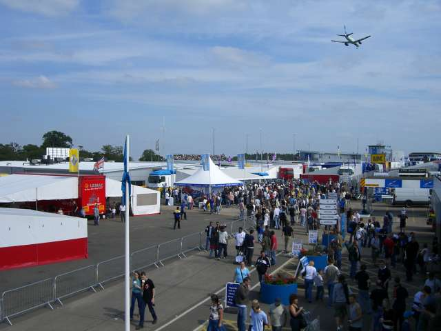 Donington Paddock. A very busy race paddock at Donington Park on the Renault World Series race day 2006. From the height of the plane heading in for landing you can also get an idea of how close the race circuit is to East Midlands Airport.